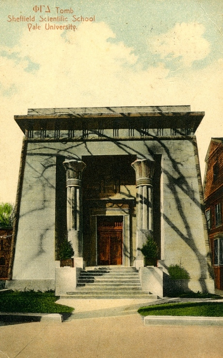 Vernon Hall Society Tomb, constructed 1900